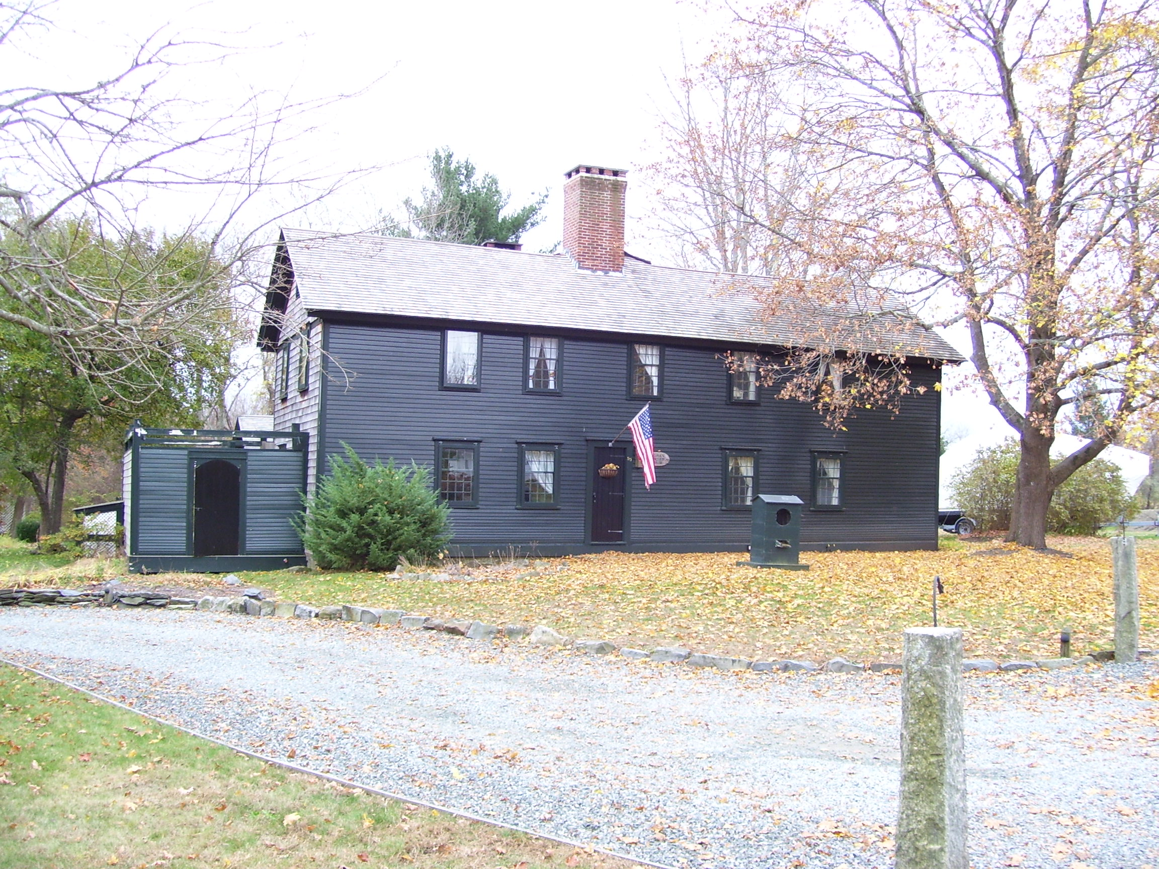 This is my 2008 photo of the Stephen Northrup House in North Kingstown, RI.